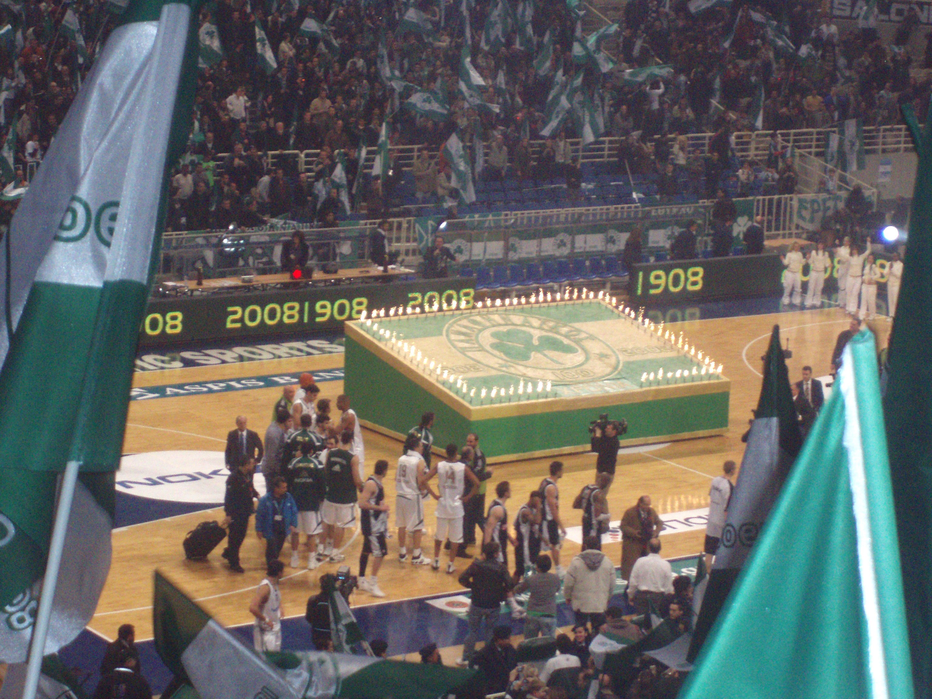 100 years celebration